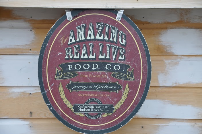 Signage of The Amazing Real Live Food Co. at Chaseholm Farm Creamery in Pine Planes, NY.